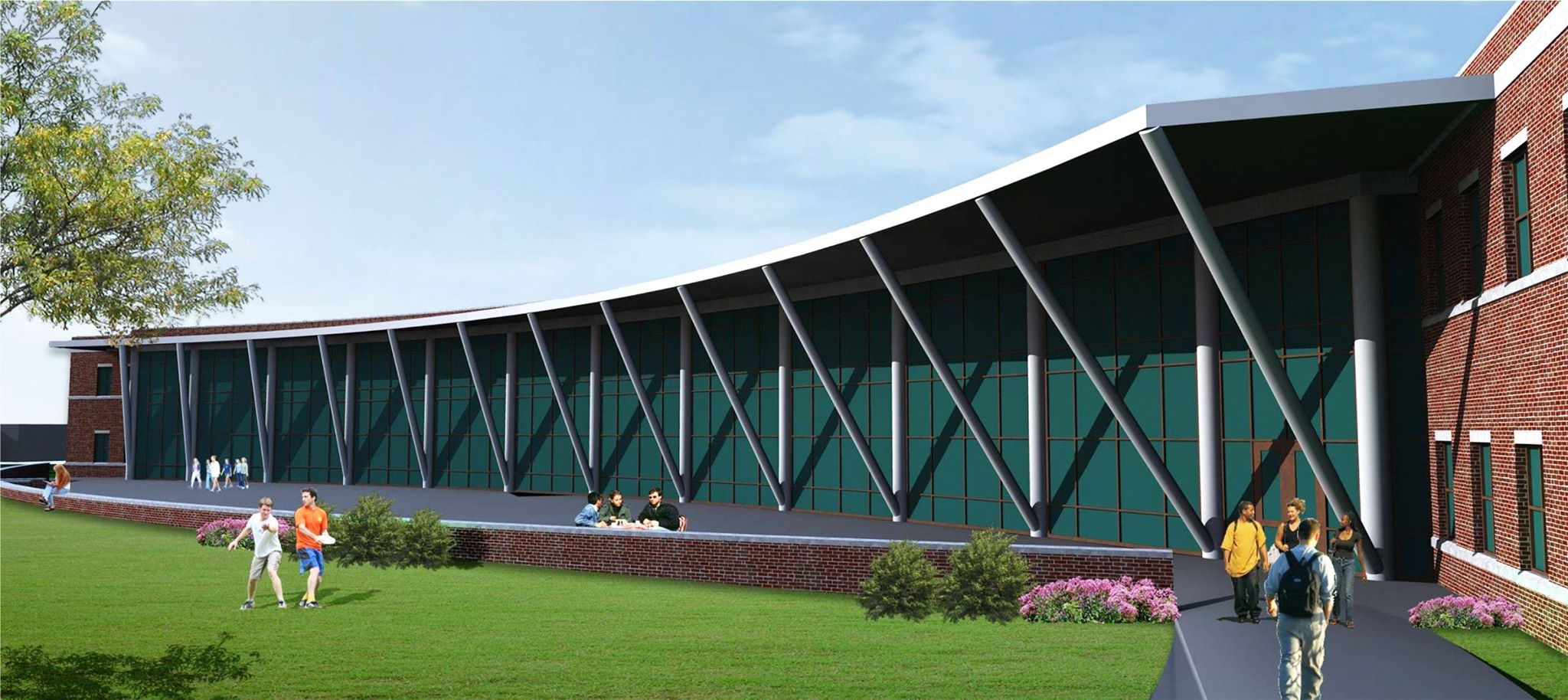 Rendering of the Student Union under construction at EMCC's Golden Triangle campus. Designed by Pryor & Morrow Architects & Engineers, the 76,000-square-foot facility is scheduled to open in fall 2016.